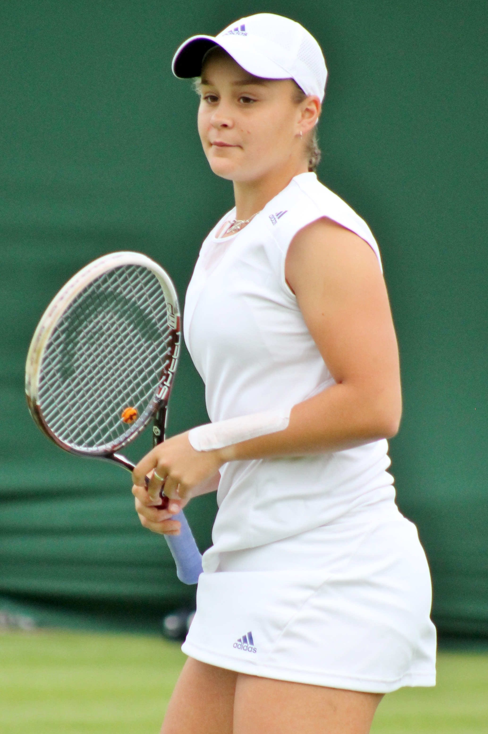 Ashleigh Barty at 2013 Wimbledon